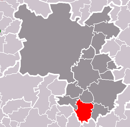 Location of Chválenice municipality within Plzeň-City District.